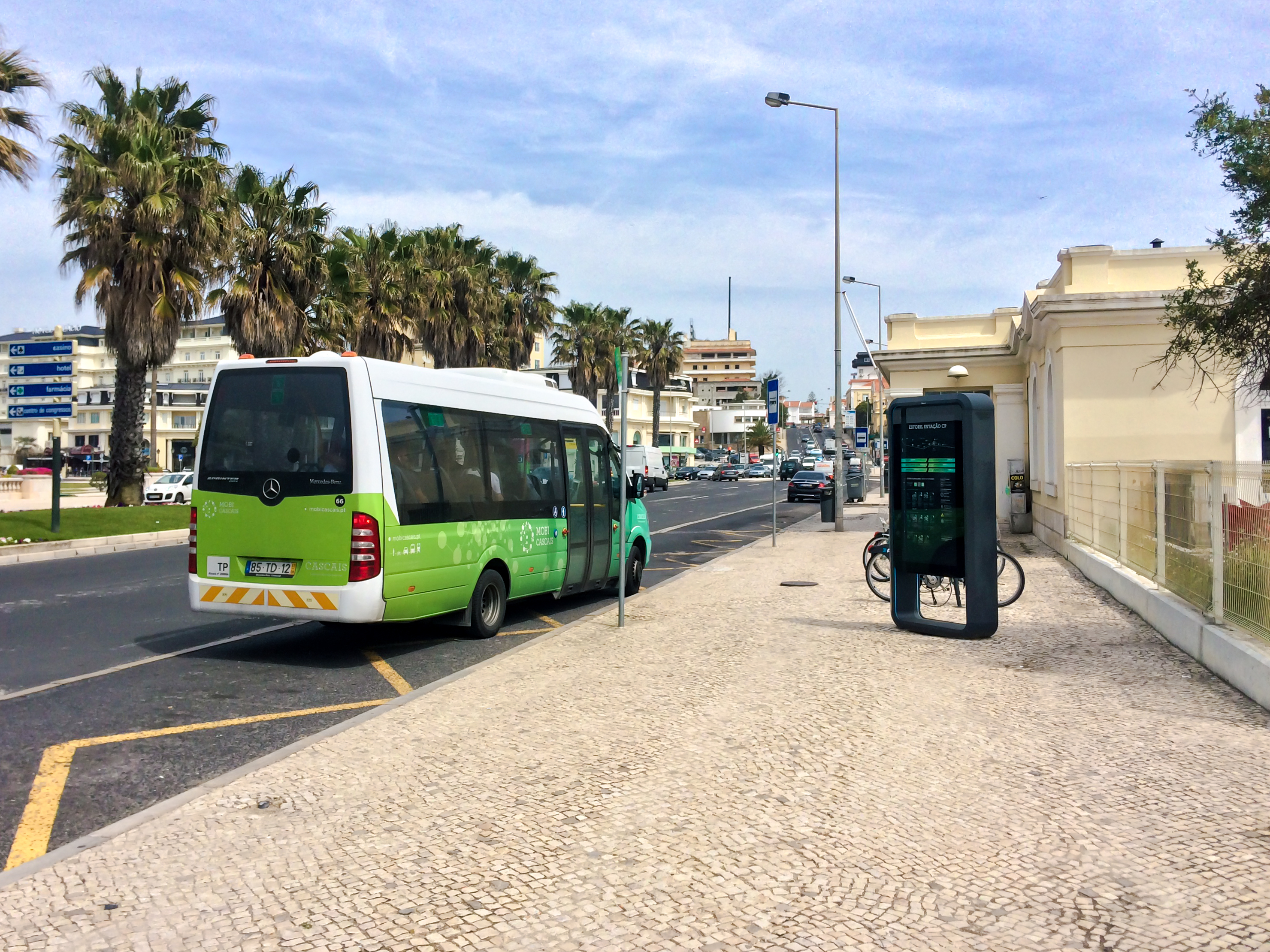 A busCas Estoril bus and a bicycle rental station from mobiCascais.